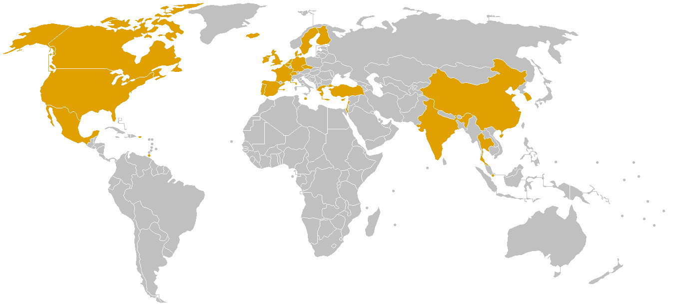 Map of nations containing Ben & Jerry's retailers.